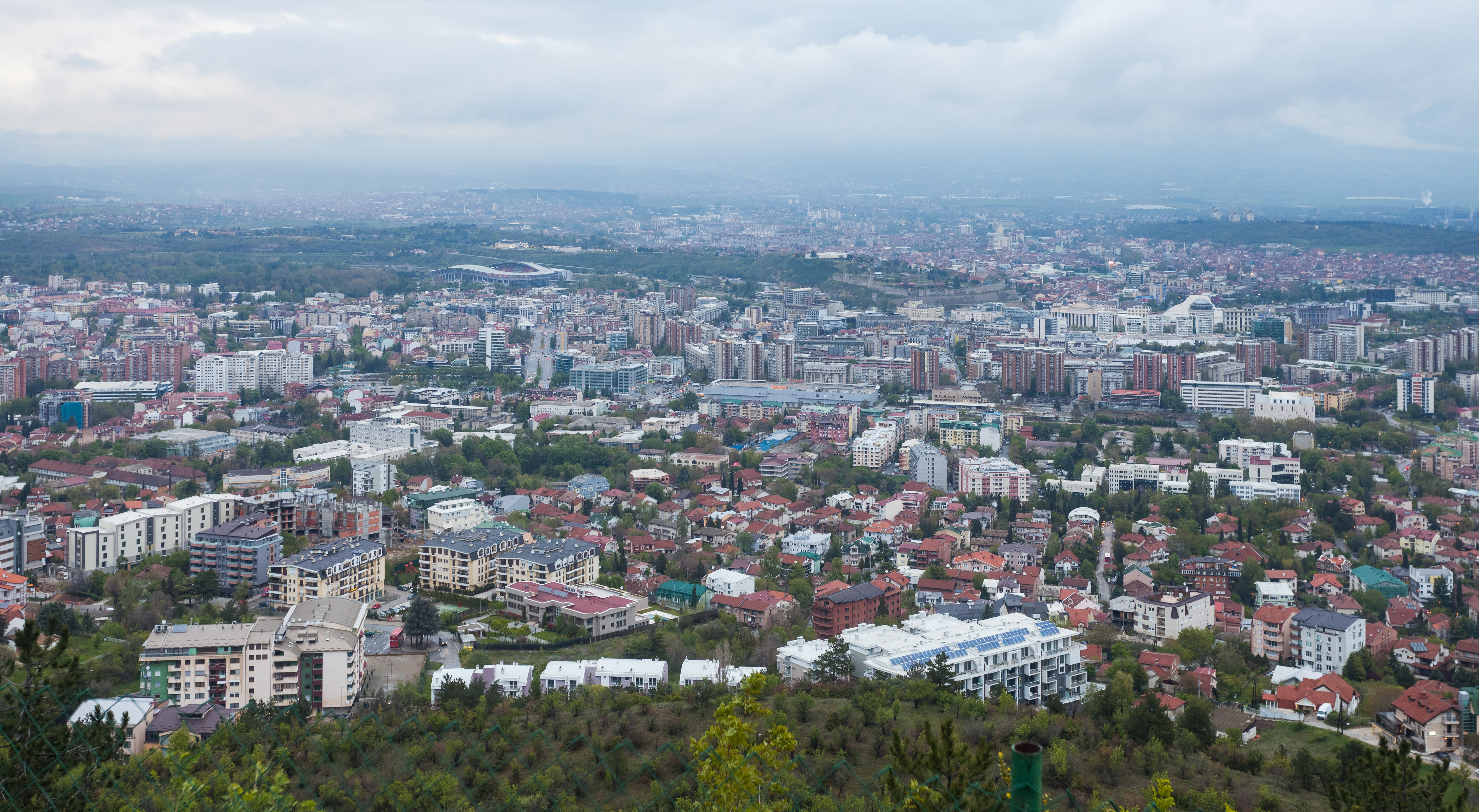 View of Skopje, Republic of Macedonia